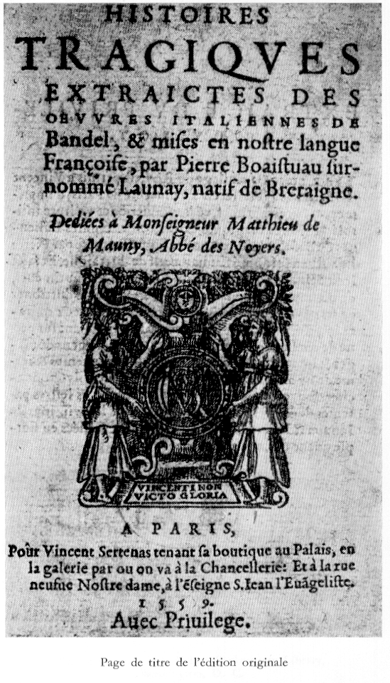 a title page of Pierre Boaistuau's translation of Matteo Bandello's book